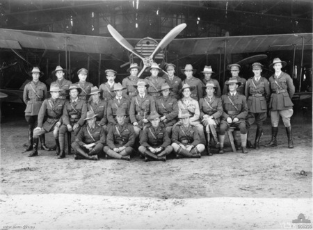 Ottoman Empire: Mejdel Jaffa Area, Ramleh. Group portrait of Officer Commanding and Officers of No. 1 Squadron Australian Flying Corps in front of a Bristol F2B fighter aircraft. Back row, left to right: Lieutenant (Lt) C. J. Vyner Lt L. S. Climie Lt H. Trevan MC Lt D. R. Dowling Lt H. A. Blake Captain (Capt) A. A. Lang, Australian Army Medical Corps Lt S. W. Barker MC Lt J. C. McMurray Lt J. McElligott Lt William Harold Lilly Lt Paul Joseph McGinness DCM DFC Lt S. H. Harper Middle row: Lt R. S. Adair Lt C. J. Harman Lt F. C. Hawley Lt F. W. F. Lukis Major S. W. Addison OBE Capt G. C. Peters DFC Lt E. S. Headlam Lt P. A. McBain Lt Hector MSM Johnston Front row: Lt O. Vincent Lt A. W. Murphy DFC AFC Lt W. C. Thompson Lt A. V. Tonkin DFC